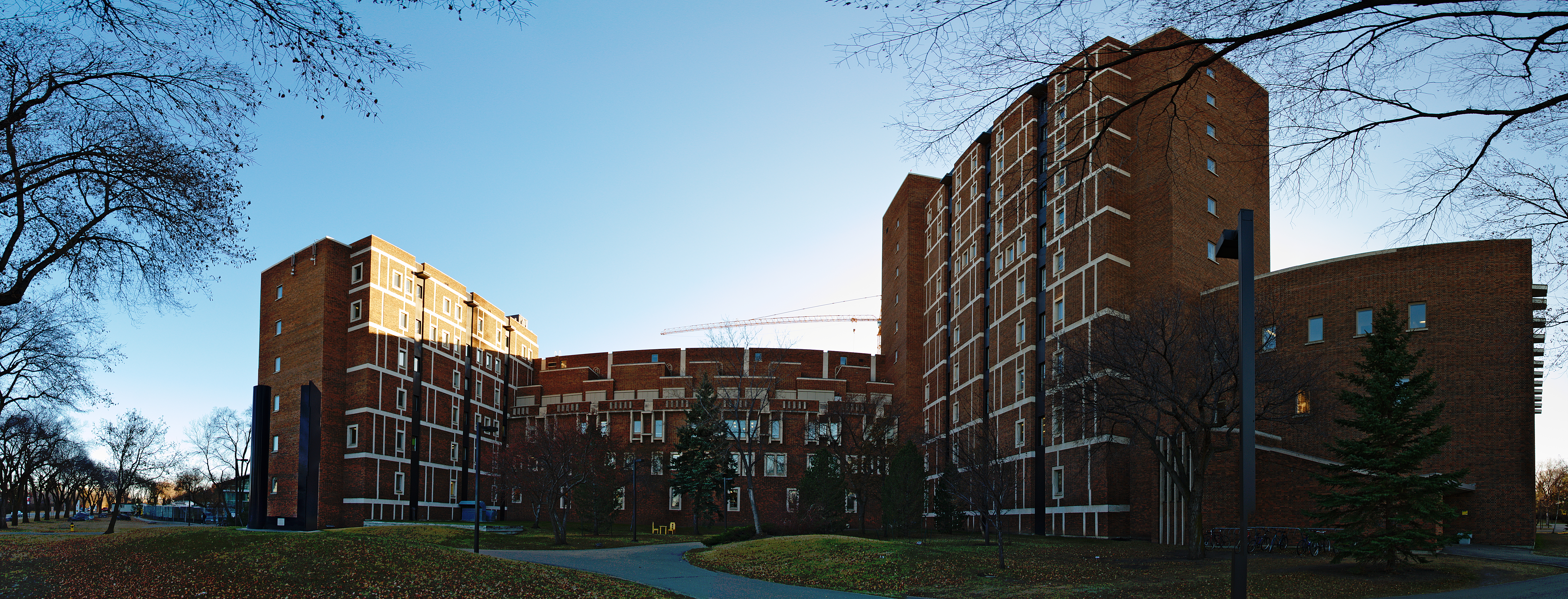 Six image stitched panorama of the Biology Building at the University of Alberta North Campus in Edmonton Alberta Canada. Created using hugin.